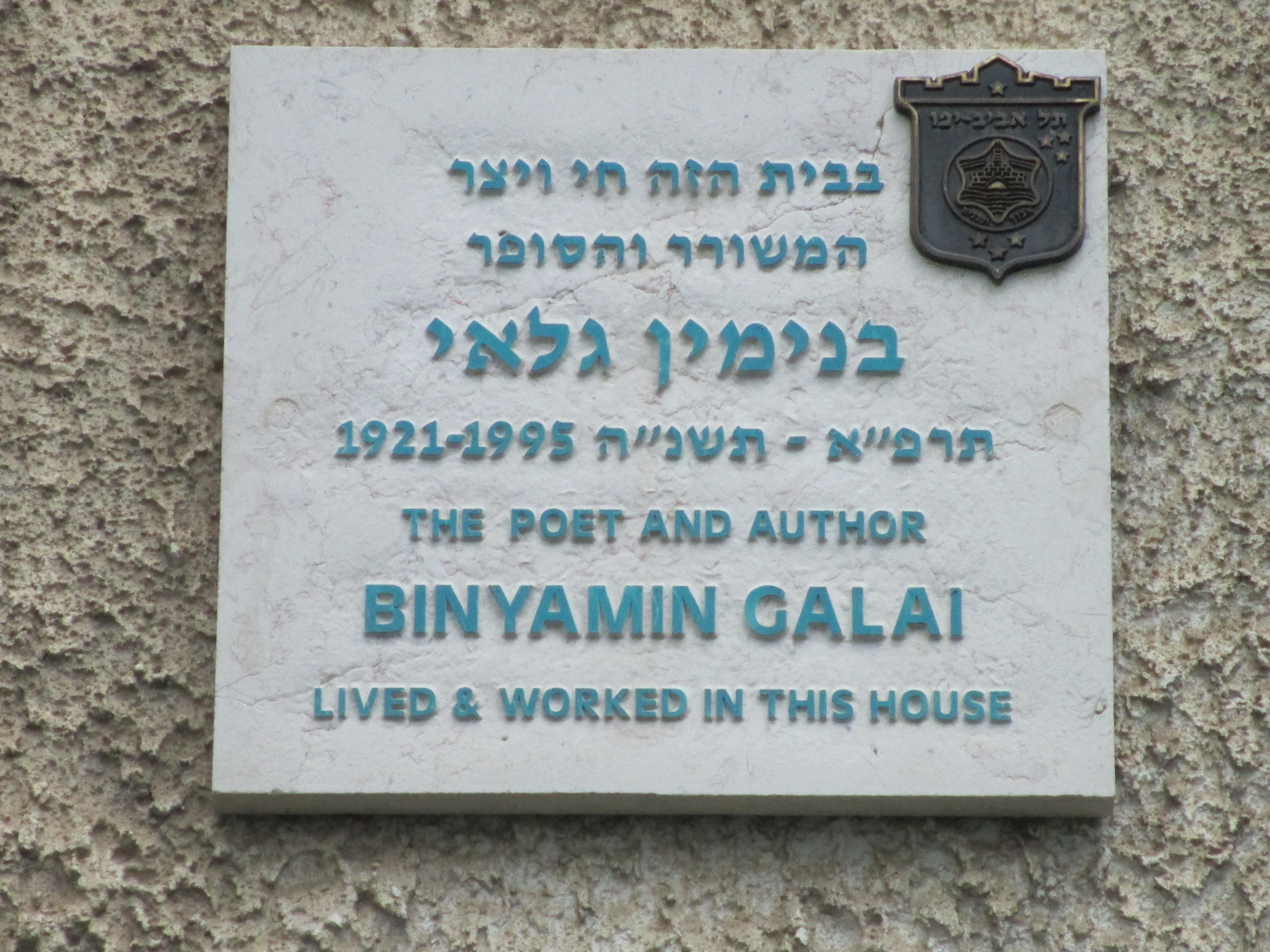 memorial plaque to the poet & author binyamin galai in tel aviv לוחית זיכרון על ביתו של המשורר והסופר בנימין גלאי ברח' אמיל זולא 3 בתל אביב